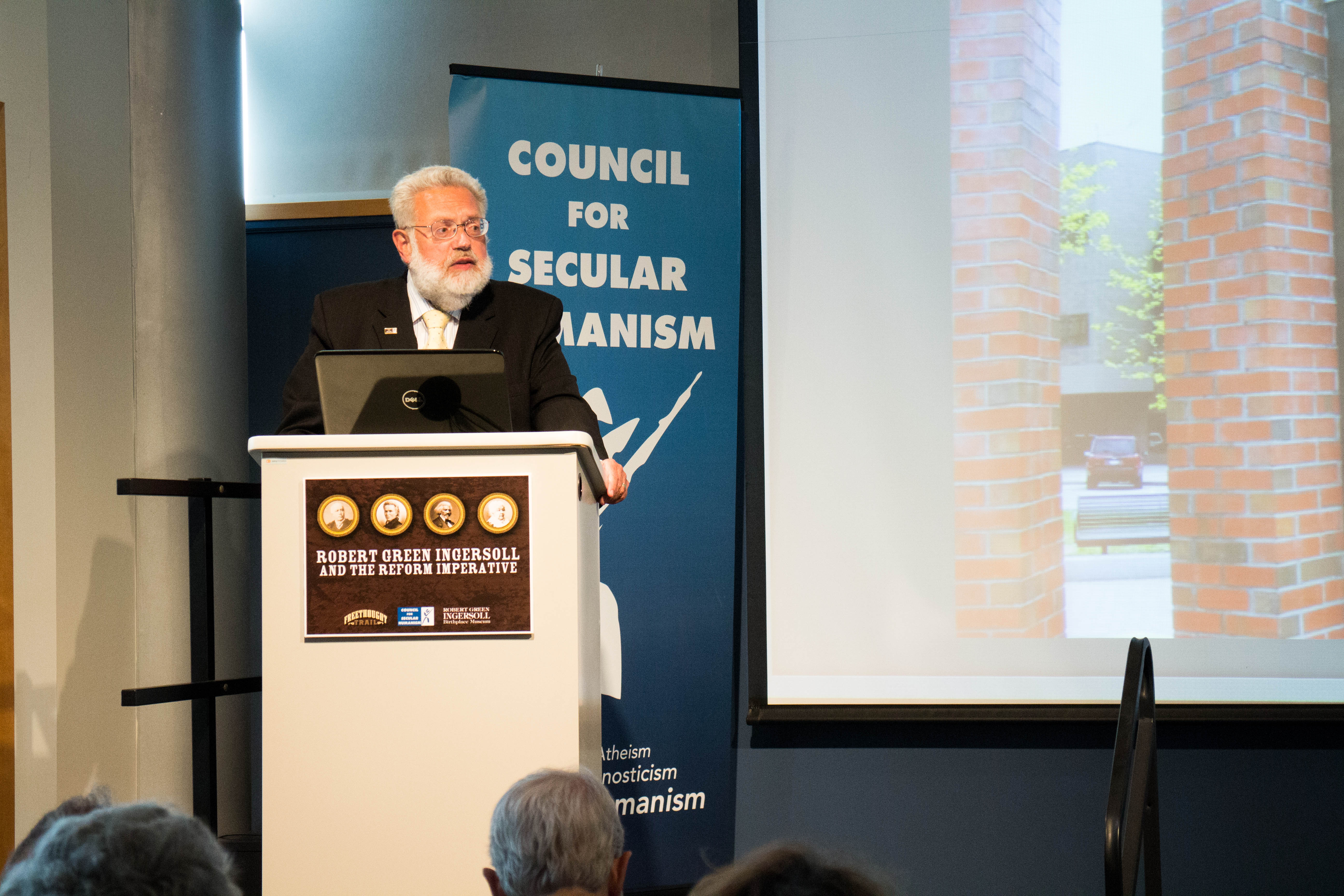 Council for Secular Humanism Executive Director and Ingersoll Museum director Tom Flynn gives a presentation on the Freethought Trail at the Center for Inquiry, Amherst, New York, August 16, 2014. Photo by Monica Harmsen.